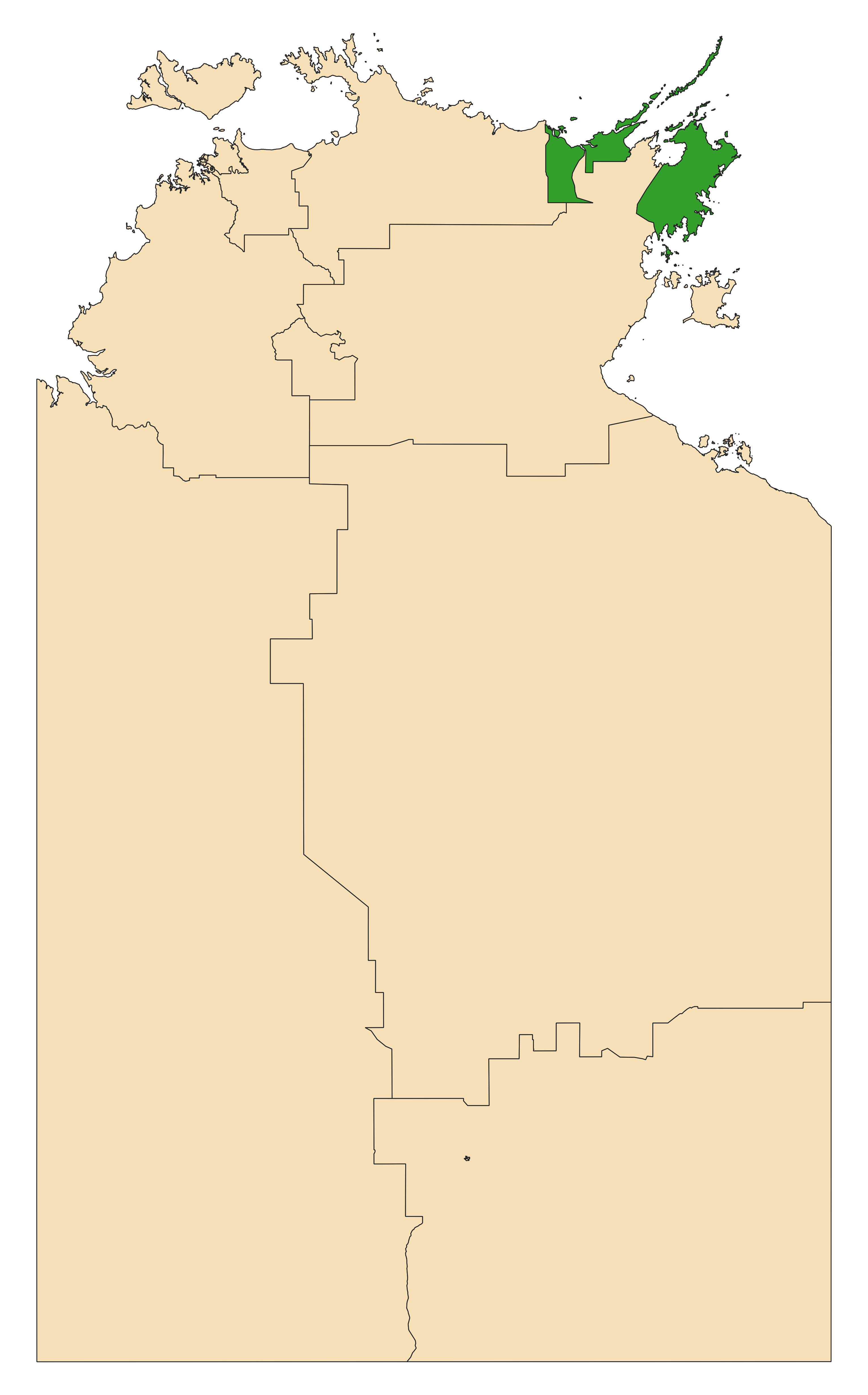 Location of the electoral division of Mulka (dark green) in the Northern Territory at the 2020 Northern Territory election